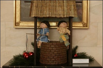 The White House 2003 Christmas decoration using the children's picture book Tikki Tikki Tembo as the theme.